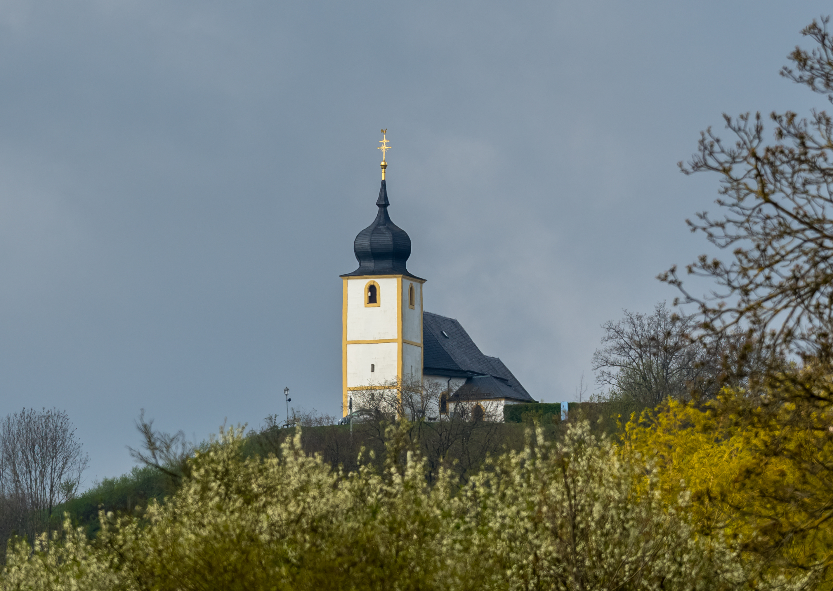 Catholic branch church St. Nicholas in Reifenberg